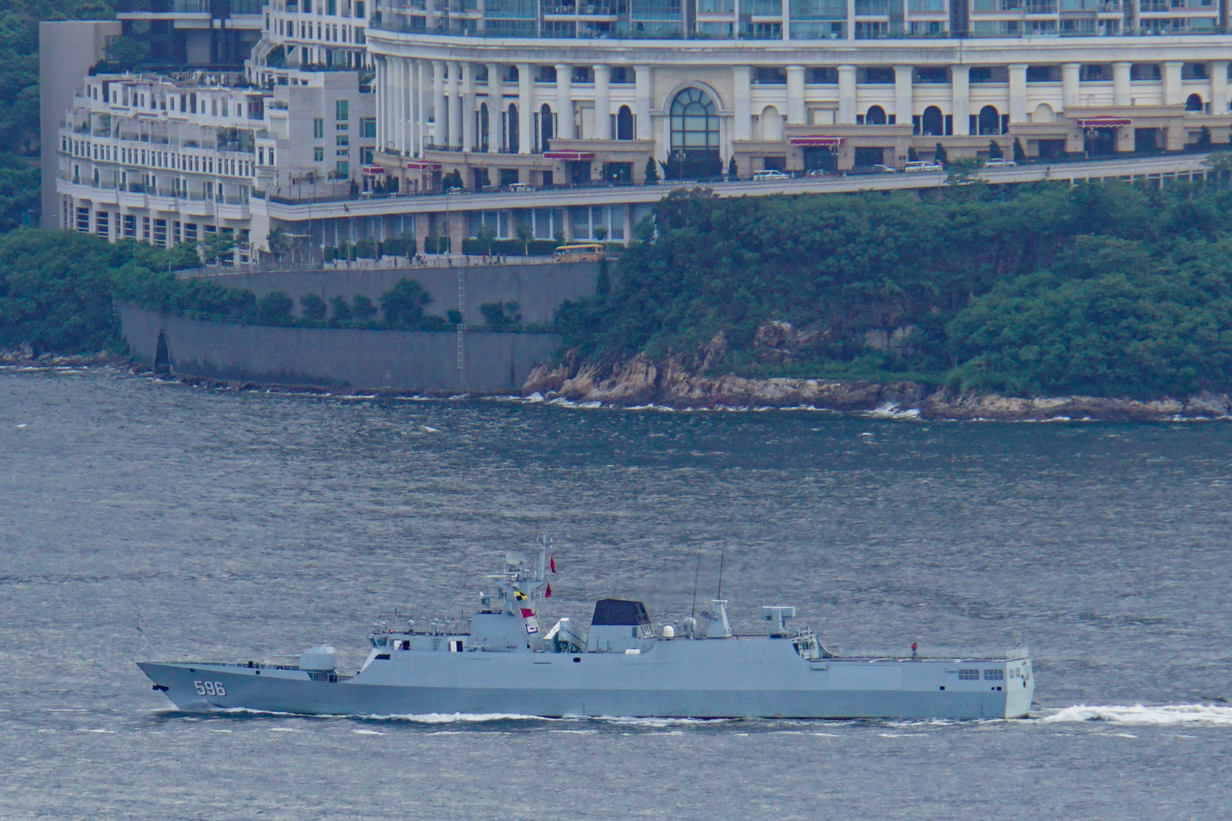 Type 056 corvette Huizhou (596) entering Lamma Channel during Liaoning visit